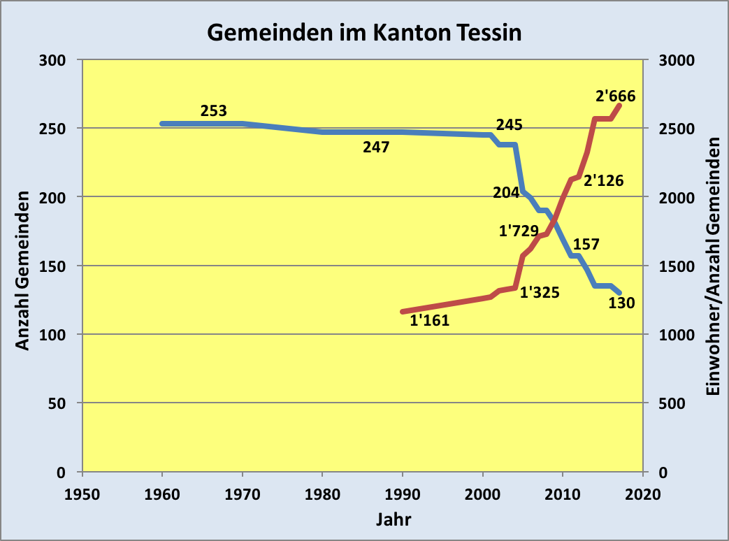 The number of municipalities in the Canton Ticino from 1960 to April 2016.